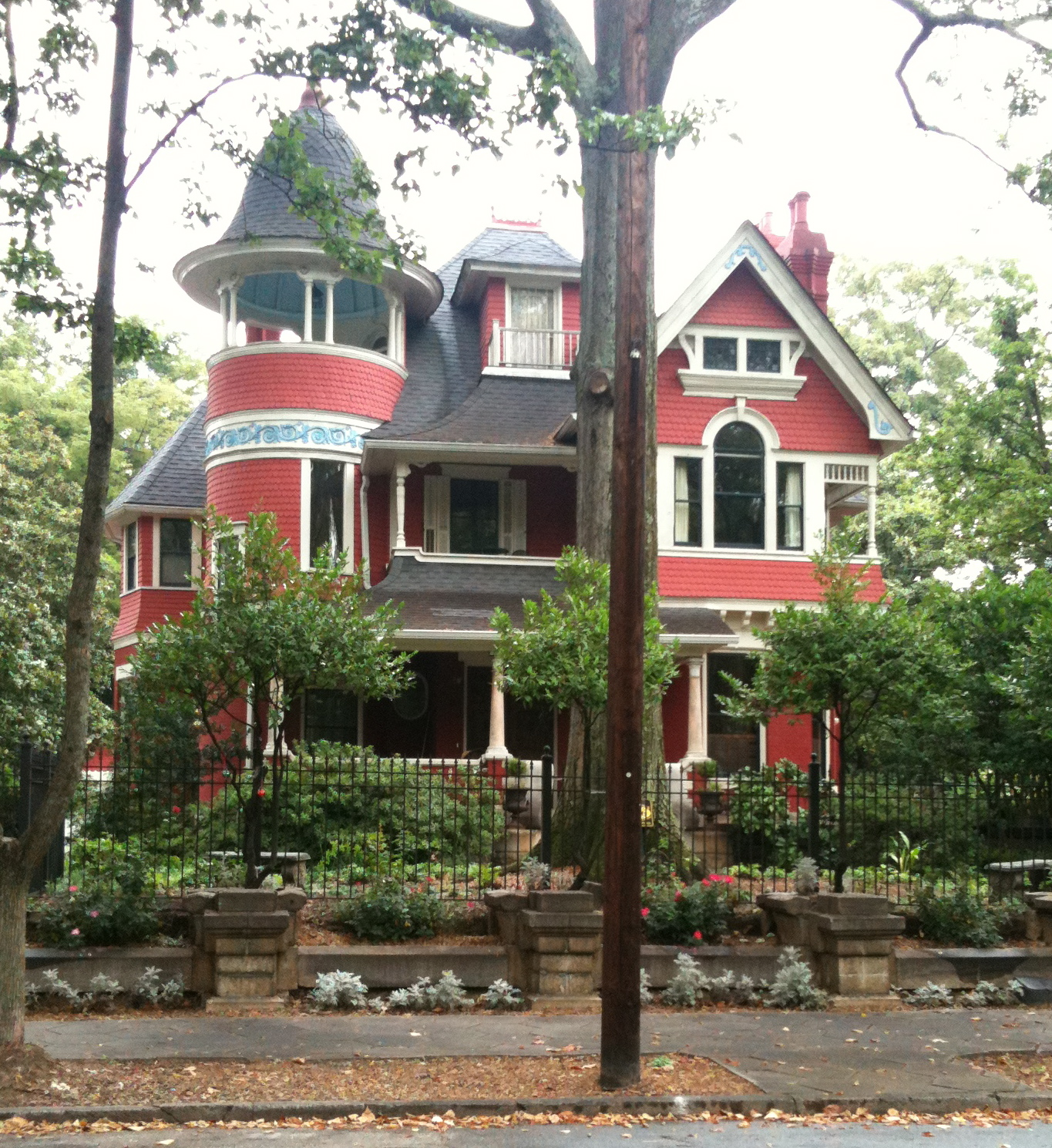 Beath-Dickey House 2011